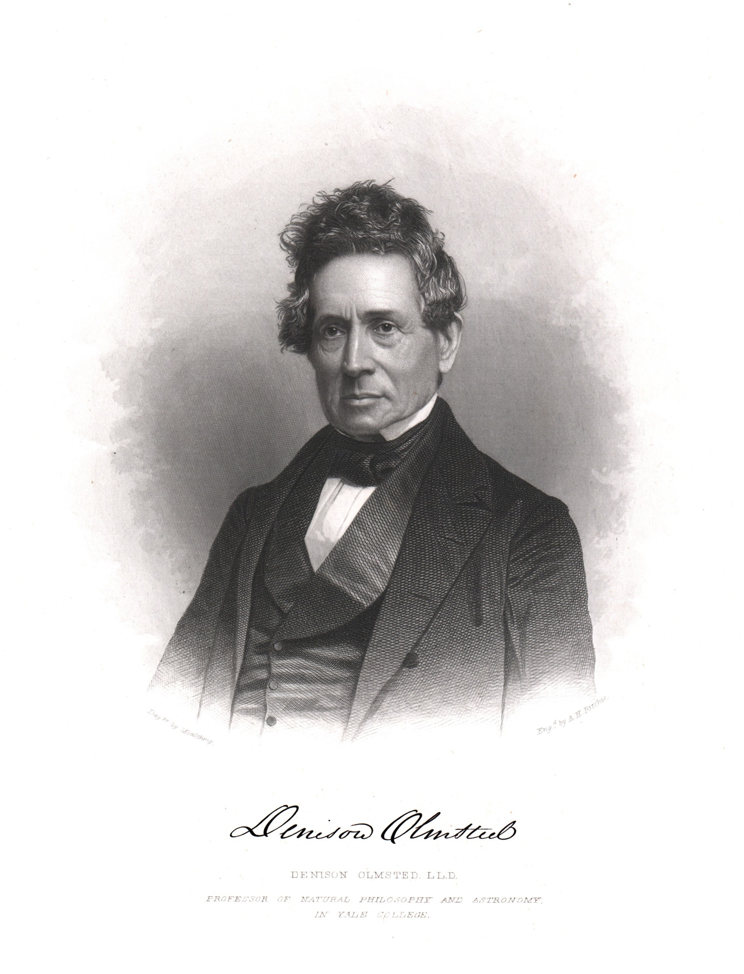 from here